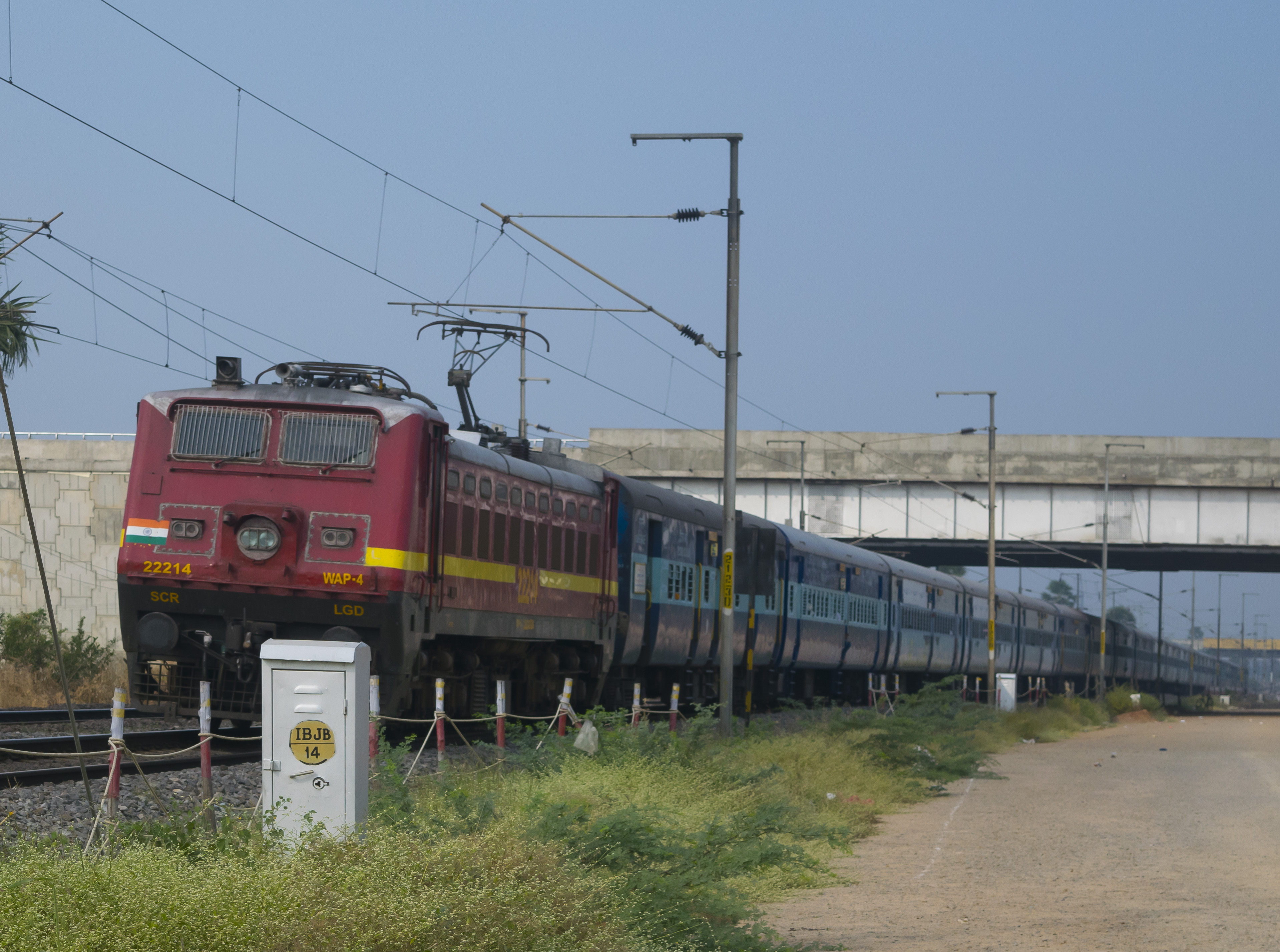 A WAP4 hauling Sirpur Kaghaznagar bound Kaghaznagar Express at Ghatkesar, 16km east of Secunderabad